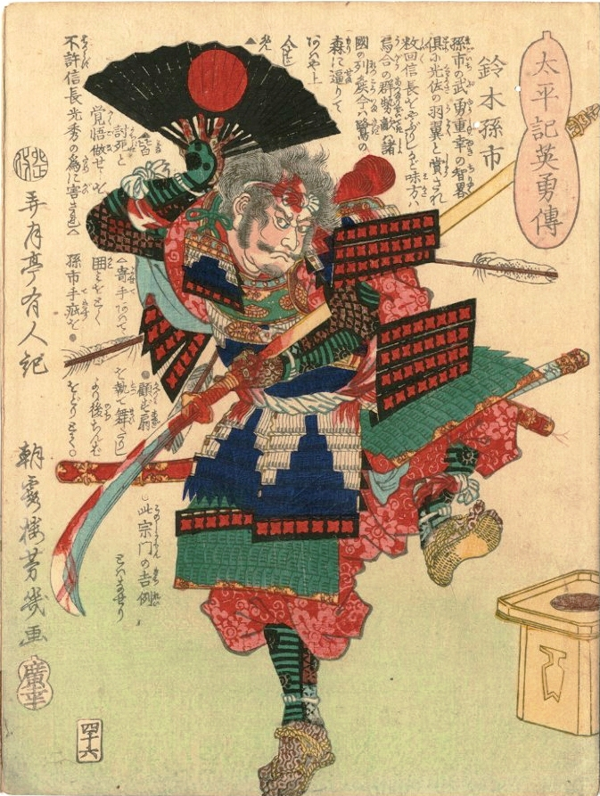 An ukiyo-e of Suzuki Magoichi.